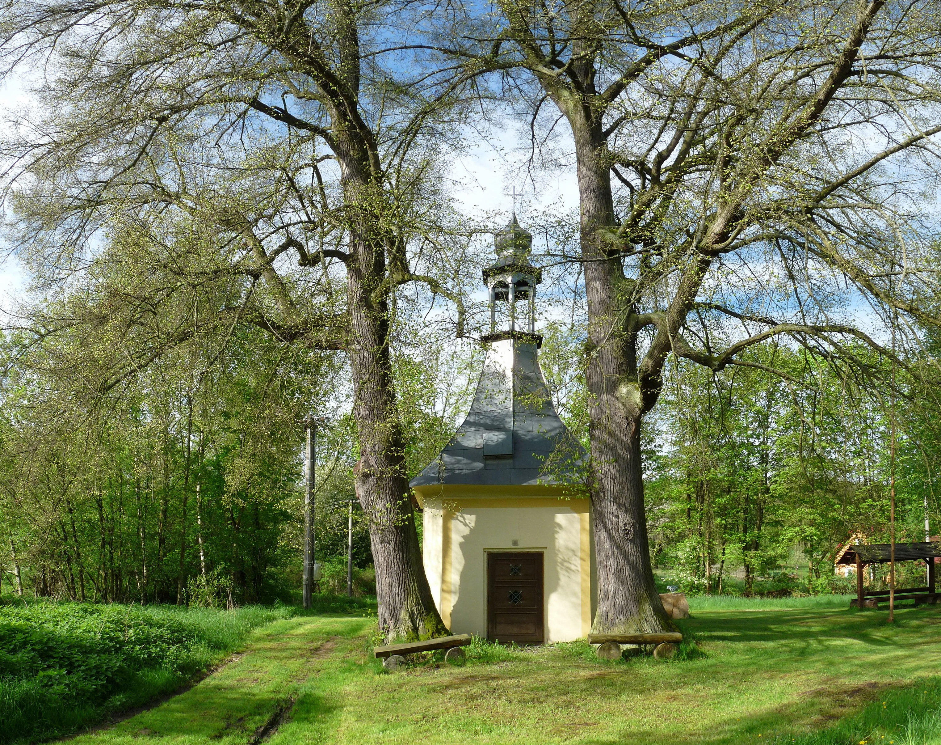 Chapel in the village of Lužná, Český Krumlov District, South Bohemian Region, Czech Republic.